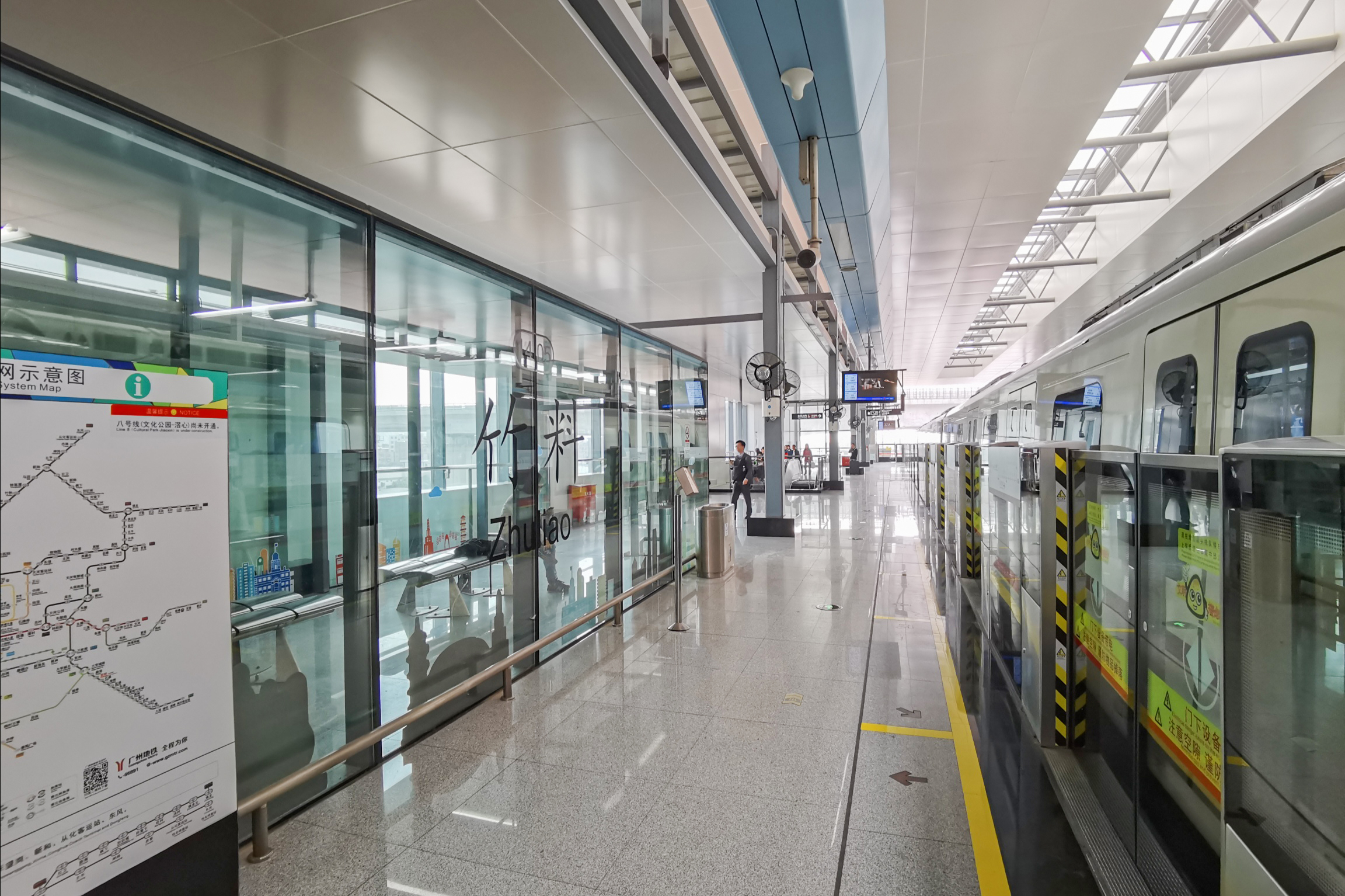 广州地铁竹料站